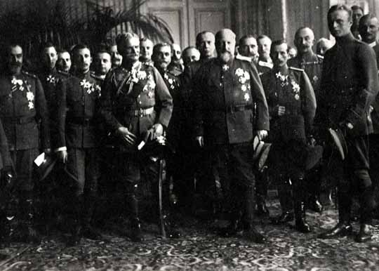 August von Mackensen and tsar Ferdinand of Bulgaria in Sofia (1916), during WWI